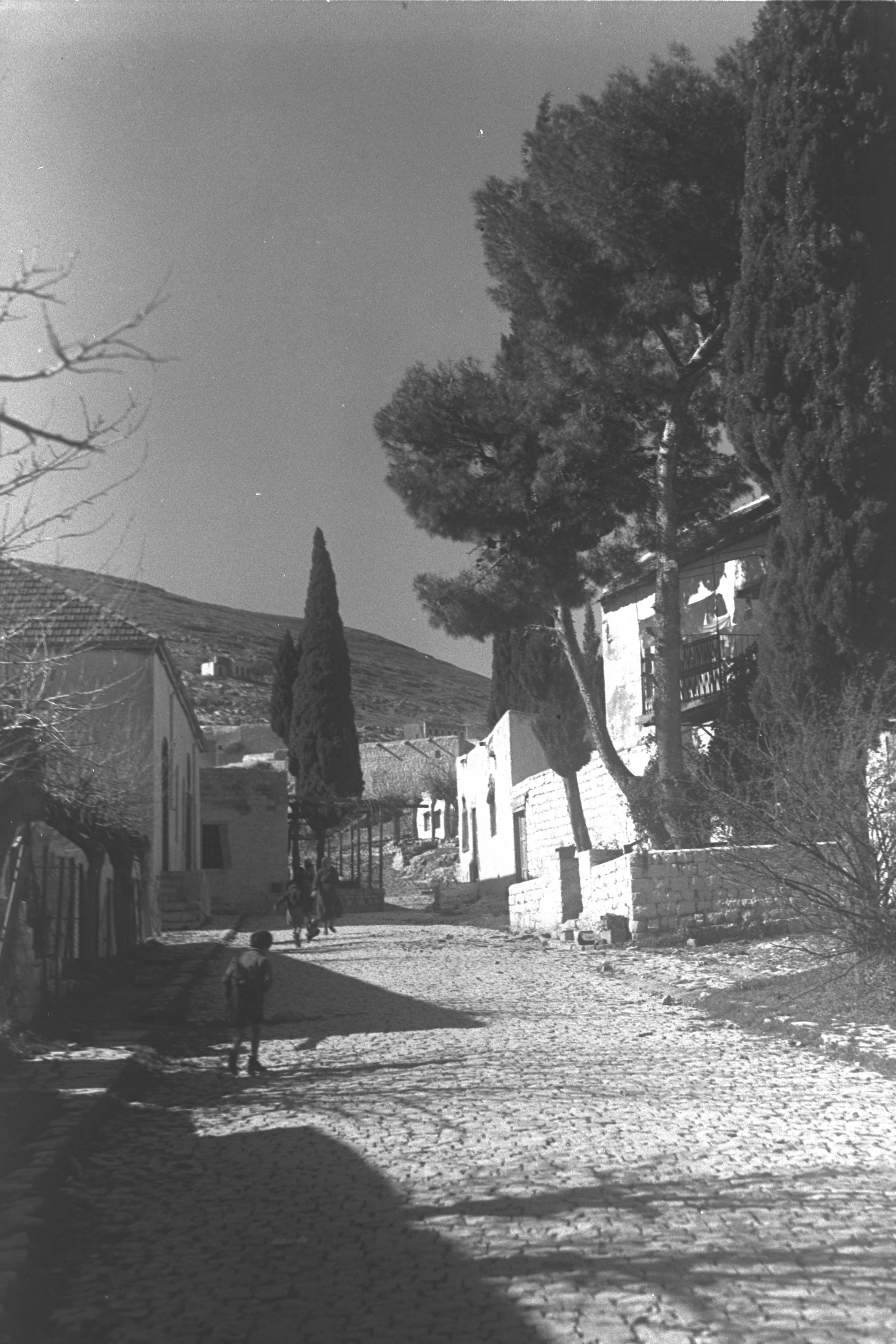 A STREET IN ROSH PINA. רחוב במושבה ראש פינה.